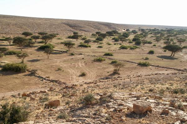 Ancient dams in the Wadi Buzra near Suq al-Awty.